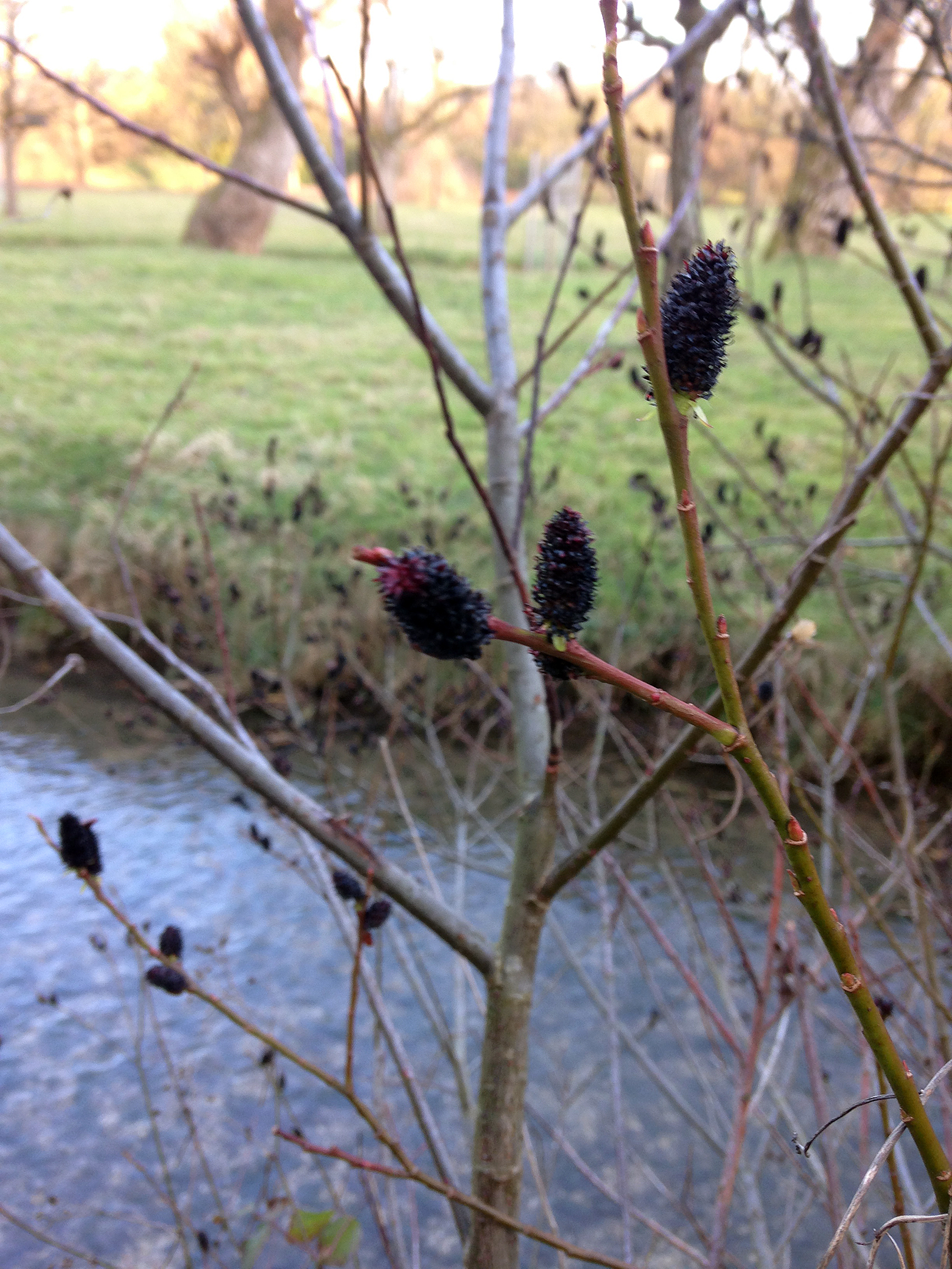 Salix gracilistyla var. melanostachys - Black Pussy Willow